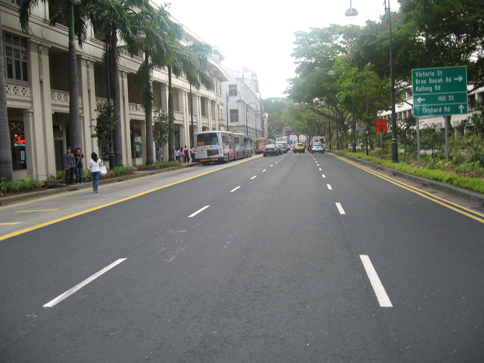 Stamford Road.